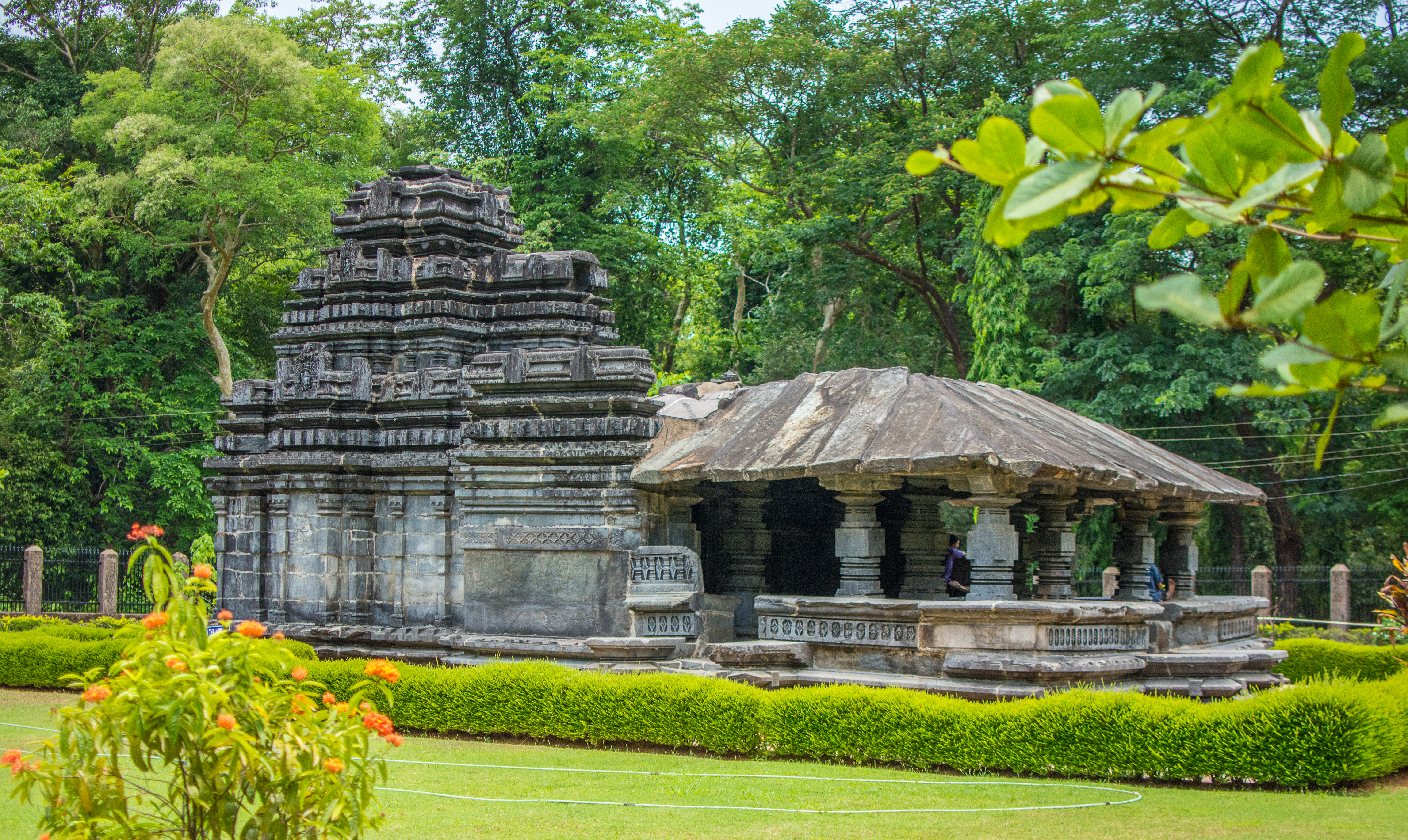 The ancient temple of Lord Shiva, built in a single stone at Tambdi Surla, Goa